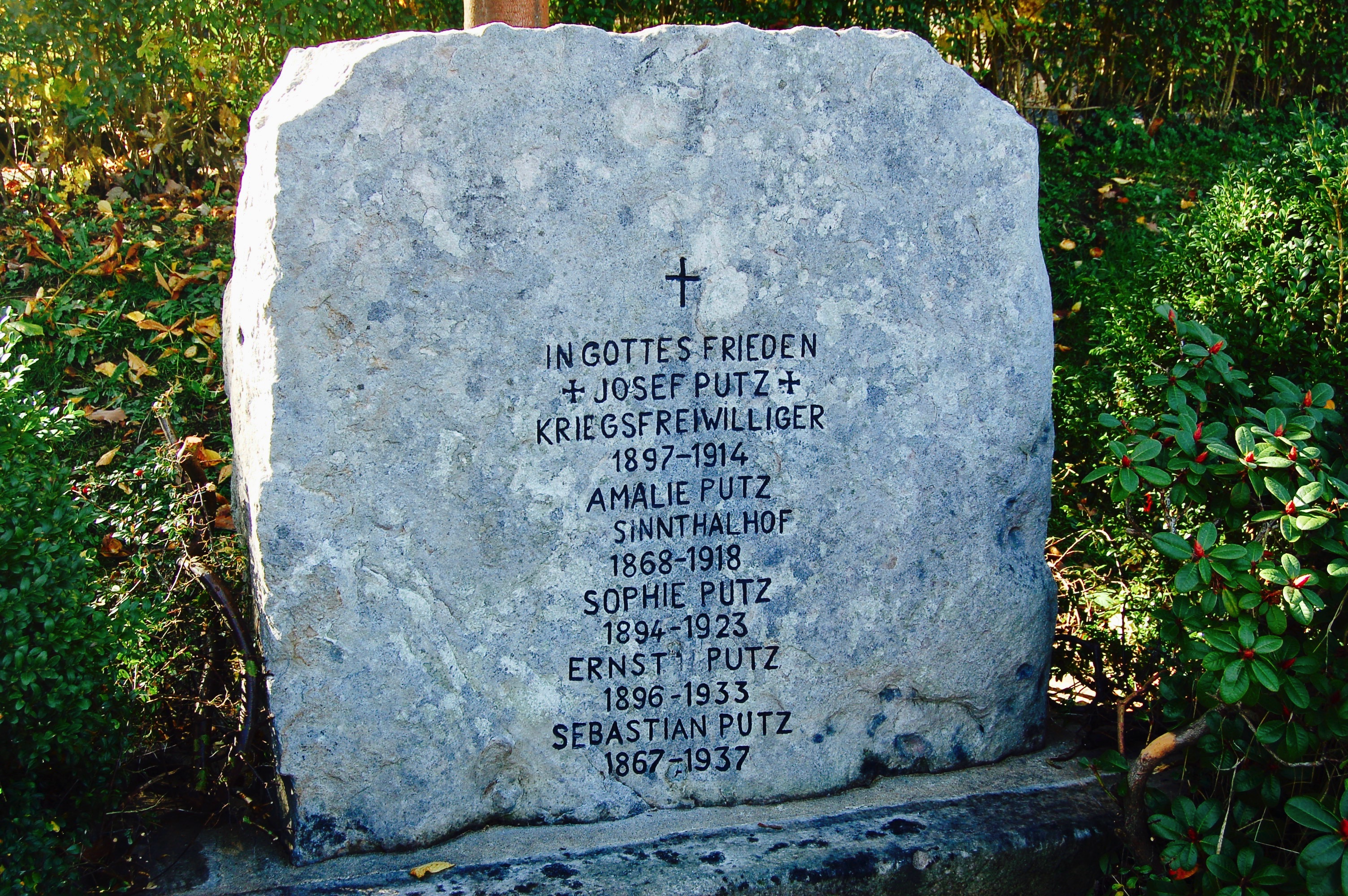 Tombstone of the Putz family in Bad Brückenau in Lower Franconia, Bavaria, Germany